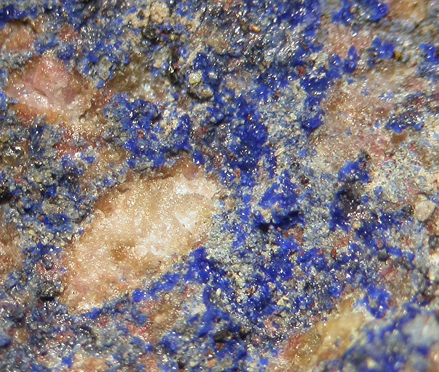 Callaghanite Locality: August Bebel smelter (Kochhütte smelter; slag locality), Helbra, Mansfeld Basin, Saxony-Anhalt, Germany Field of view 6 mm. Specimen and photo Leon Hupperichs.